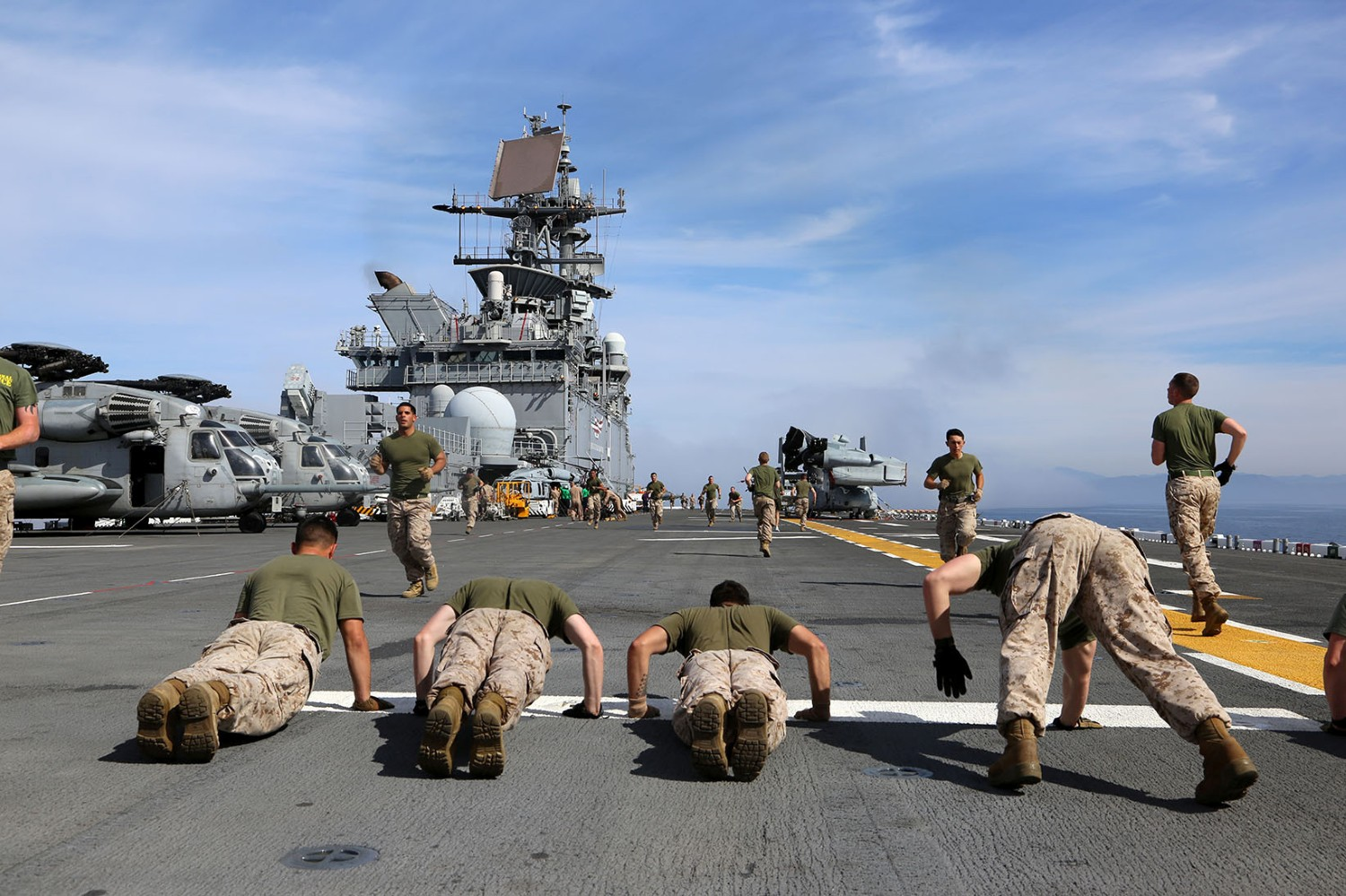 USS Makin Island, USPACOM, At Sea - Marines with Golf Company, Battalion Landing Team 2nd Battalion, 1st Marines, 11th Marine Expeditionary Unit, conduct daily morning section physical training on the flight deck of the USS Makin Island during Amphibious Squadron Marine Expeditionary Unit Integration (PMINT), off the coast of San Diego, Calif., April 9, 2014. PMINT is a two-week long pre-deployment training event focusing on the combined capabilities of the Marine Expeditionary Unit and Amphibious Ready Group (ARG), conducting amphibious operations, crisis response and limited contingency operations. (U.S. Marine Corps photo by Gunnery Sgt. Rome M. Lazarus/Released)